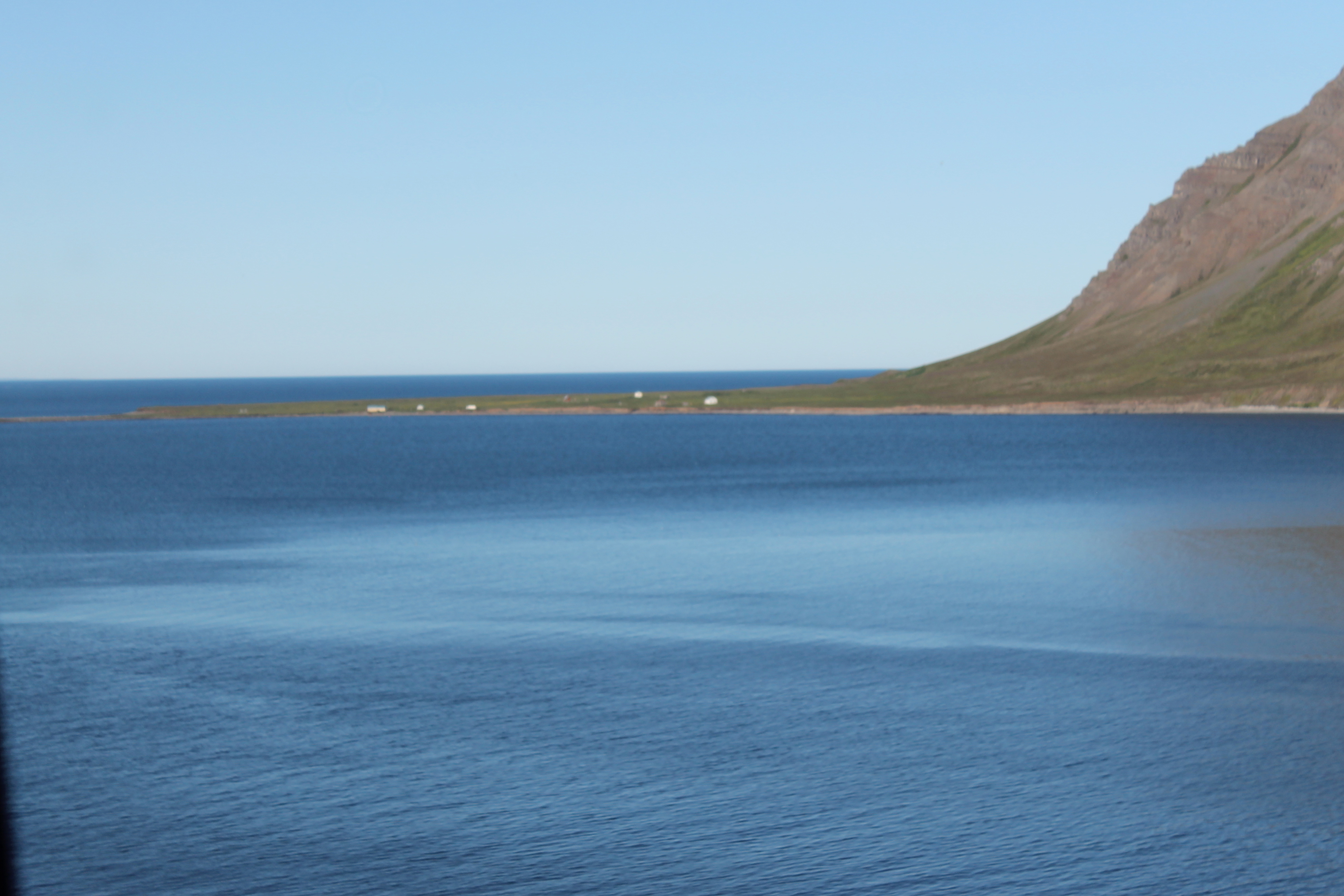 Siglunes at the mouth of Siglufjörður, Northern Iceland.